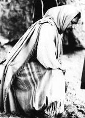 Graciliano Batista- actor